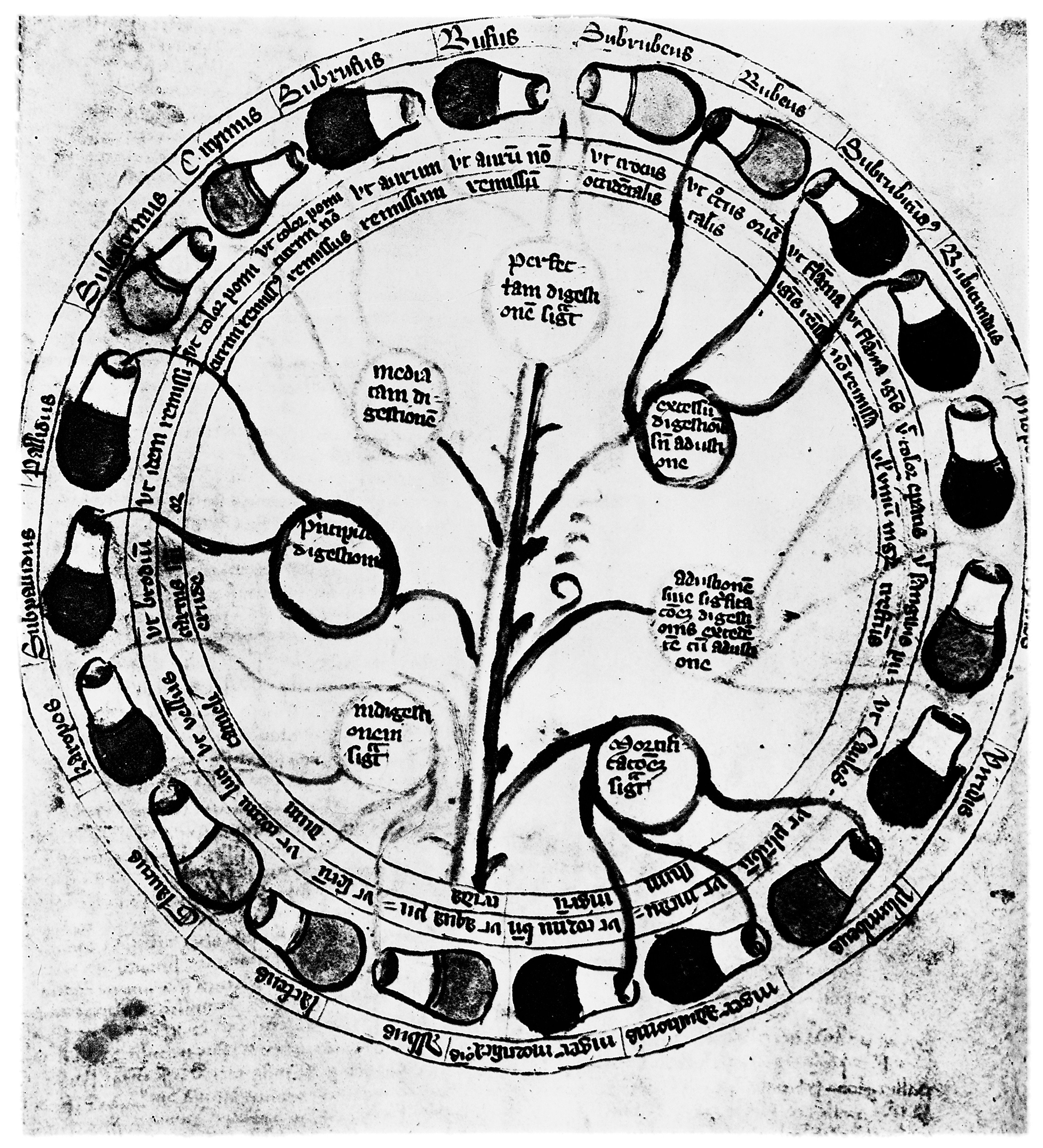 Urine Chart. MS. 1177 in the Bibliotheque de l'University de Leipzig, folio 28. Wellcome Images Keywords: Uroscopy